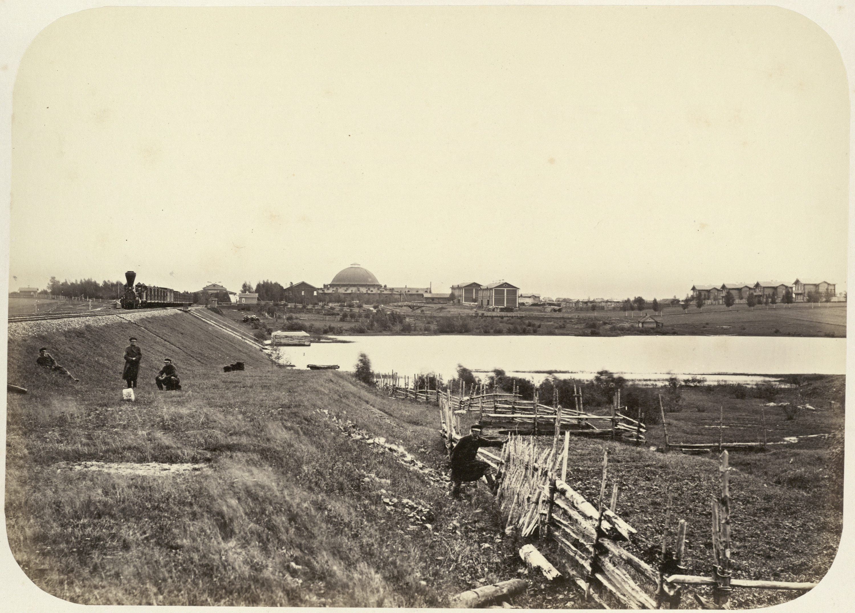 Railway station Spirovo